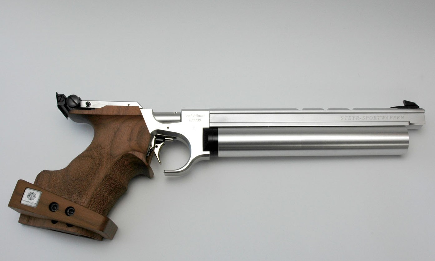 Steyr LP10 airgun Source: Author is photographer